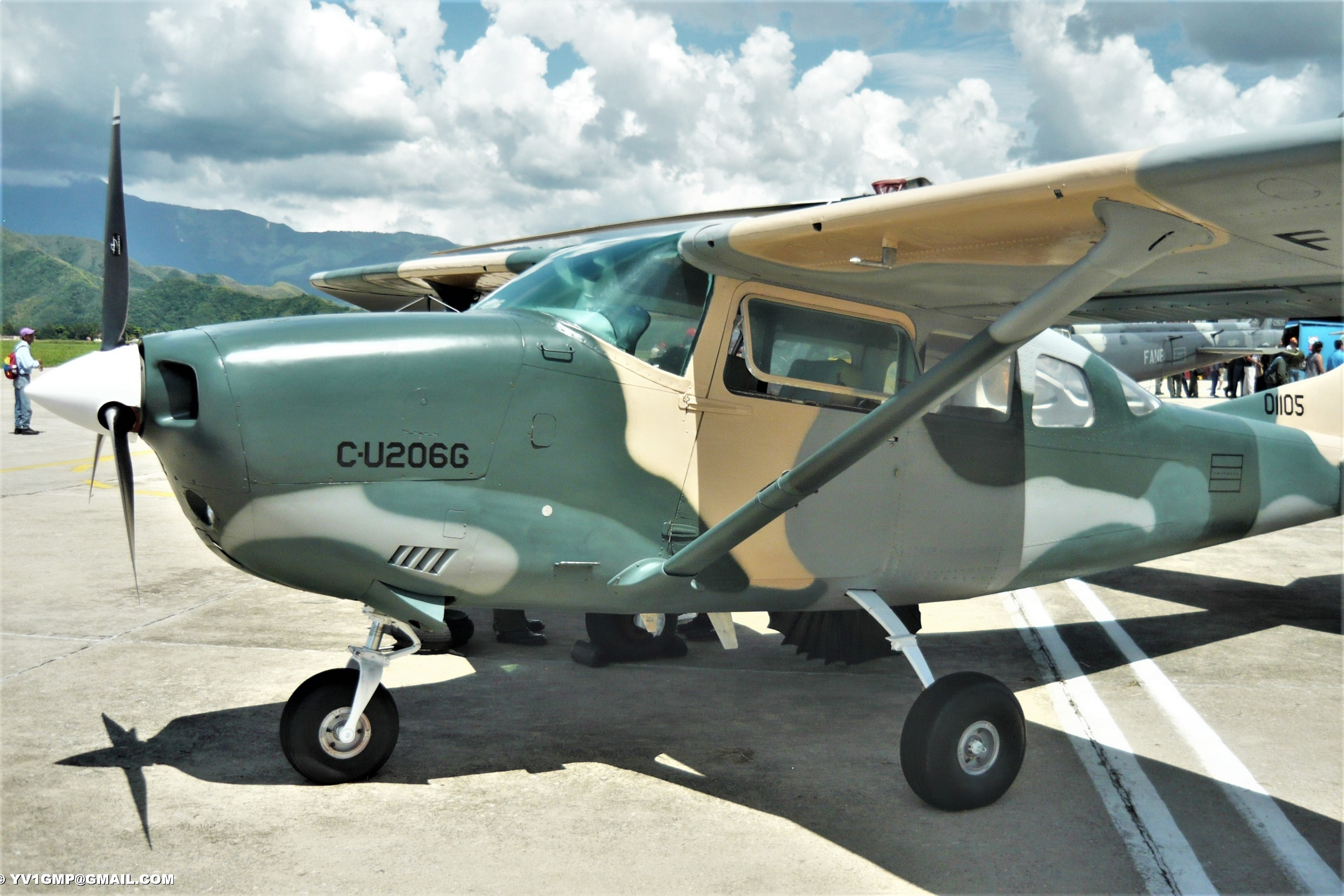 Aircraft belonging to the command of naval aviation Bolivariana of Venezuela armada